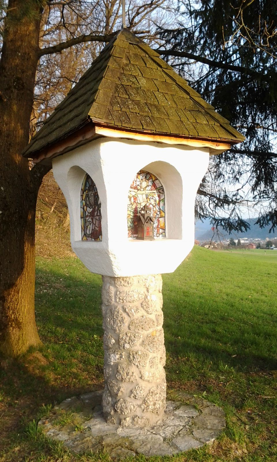 wayside shrine on Plainberg mountain, municipality of Bergheim, Salzburg state, Austria